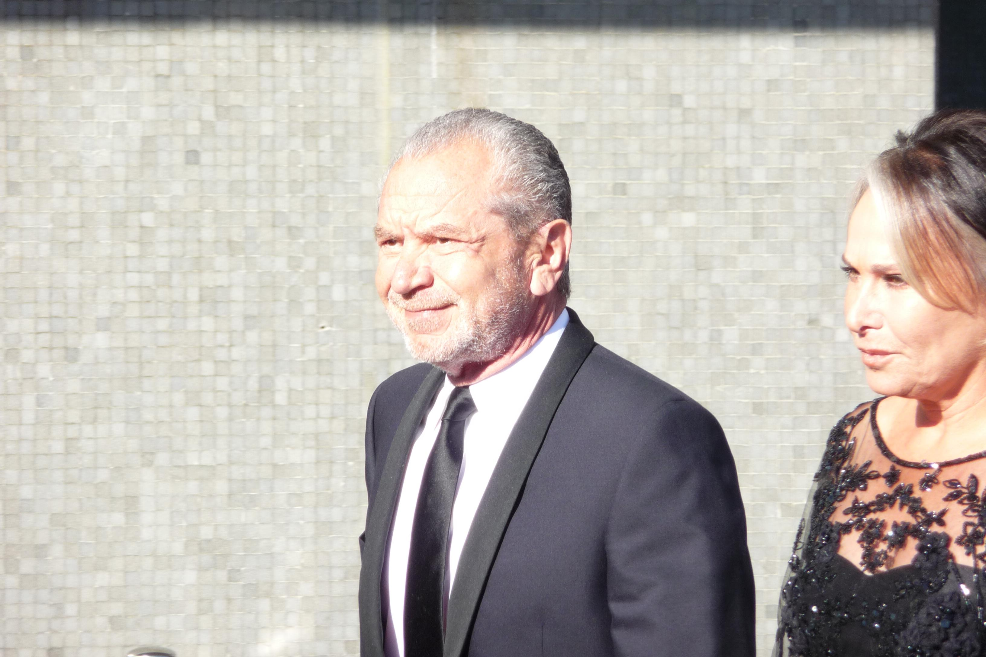 Sir Alan Sugar at the BAFTA awards 2009, mirrored from original